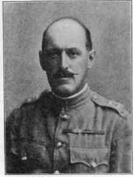 Lieutenant Colonel Robert Kekewich, commander of the garrison during the siege of Kimberley.